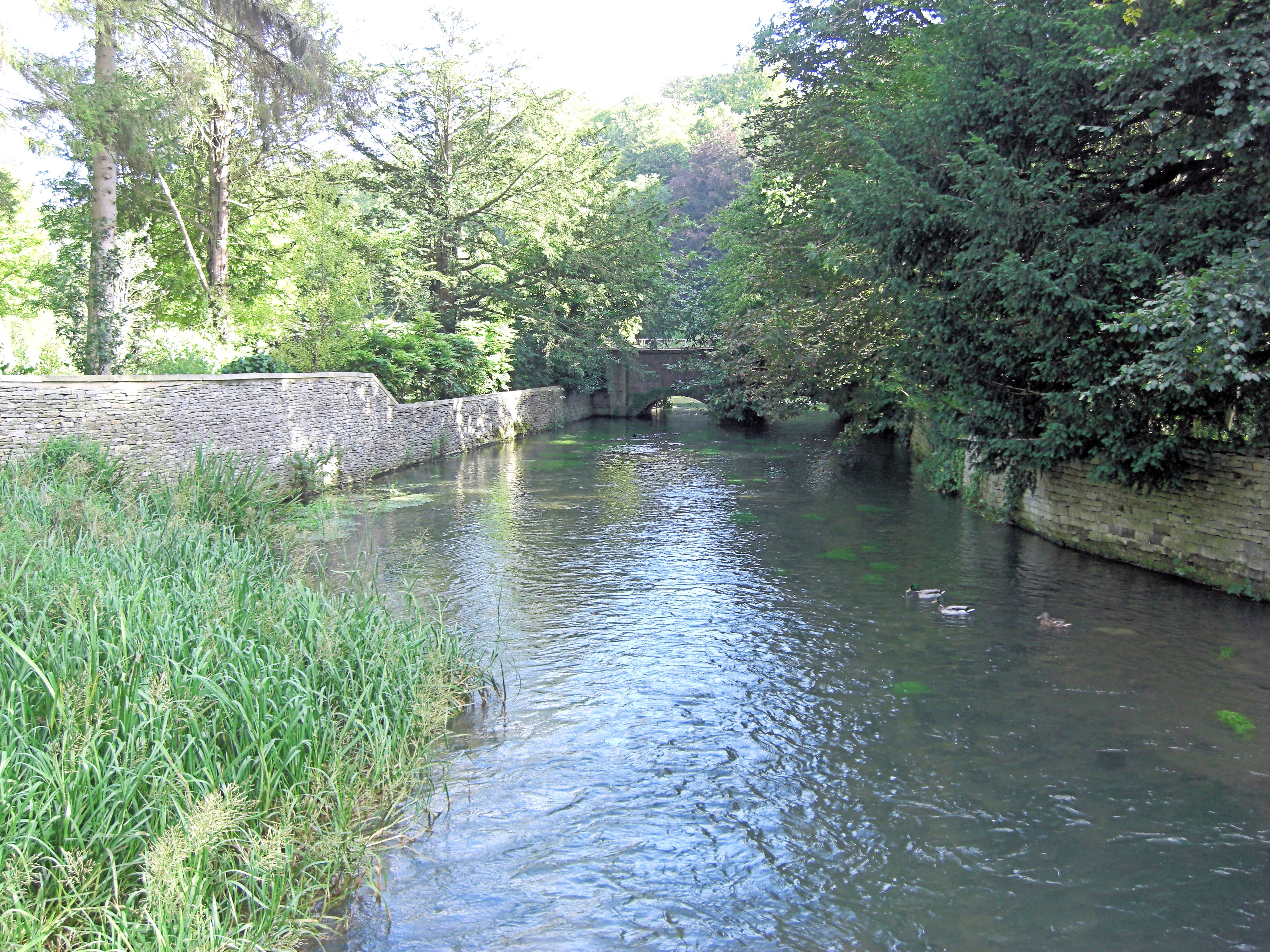 River Coln southwest of Ablington Manor